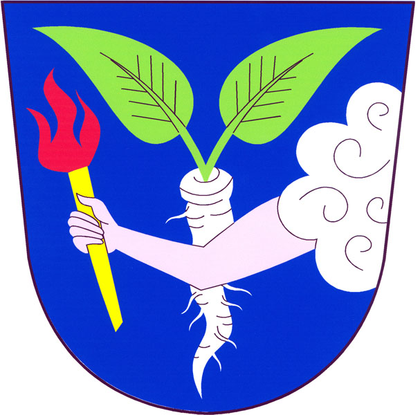 Municipal coat of arms of Hlízov village, Kutná Hora District, Czech Republic.